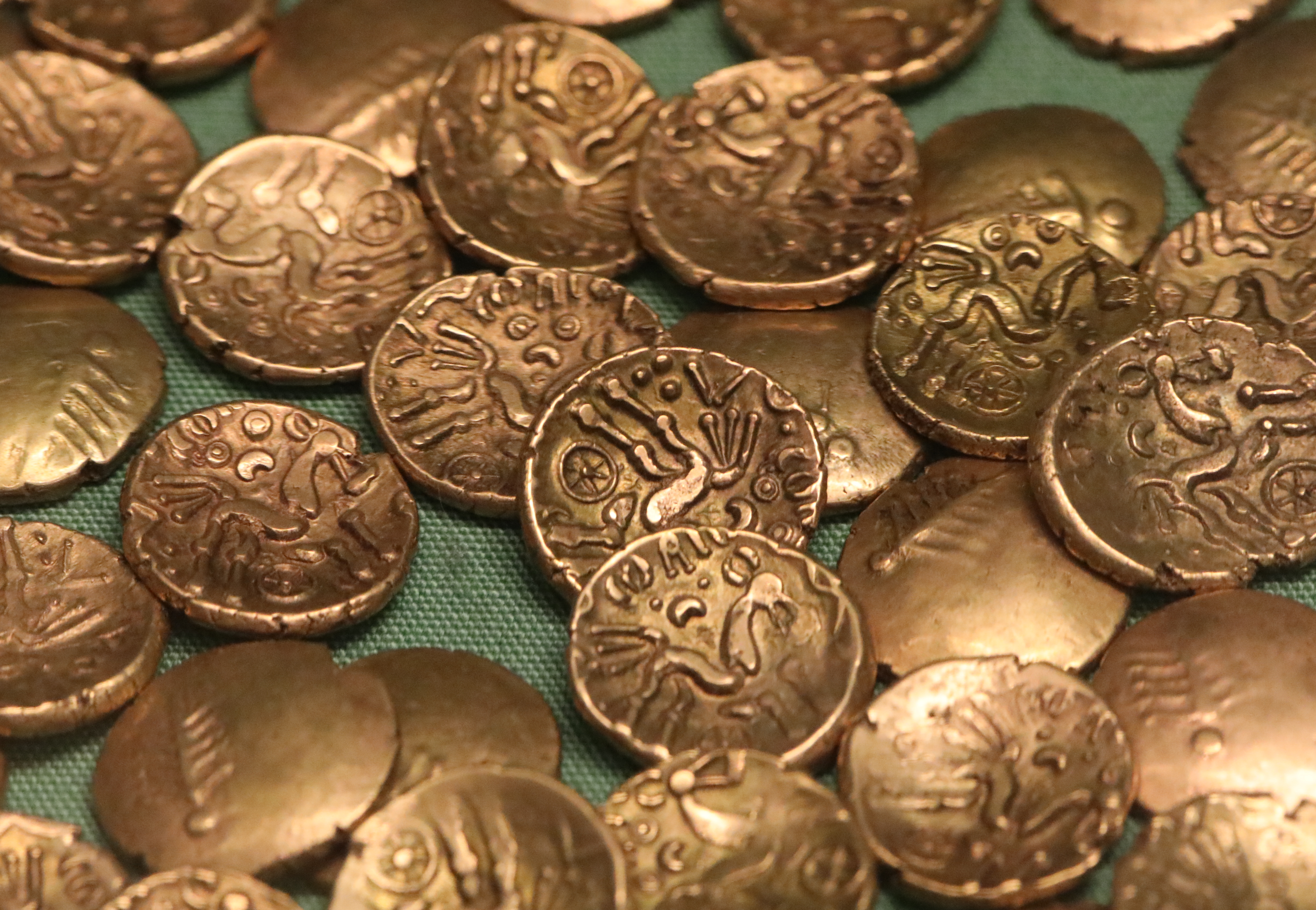 photo of part of the Farmborough Hoard showing staters of CORIO